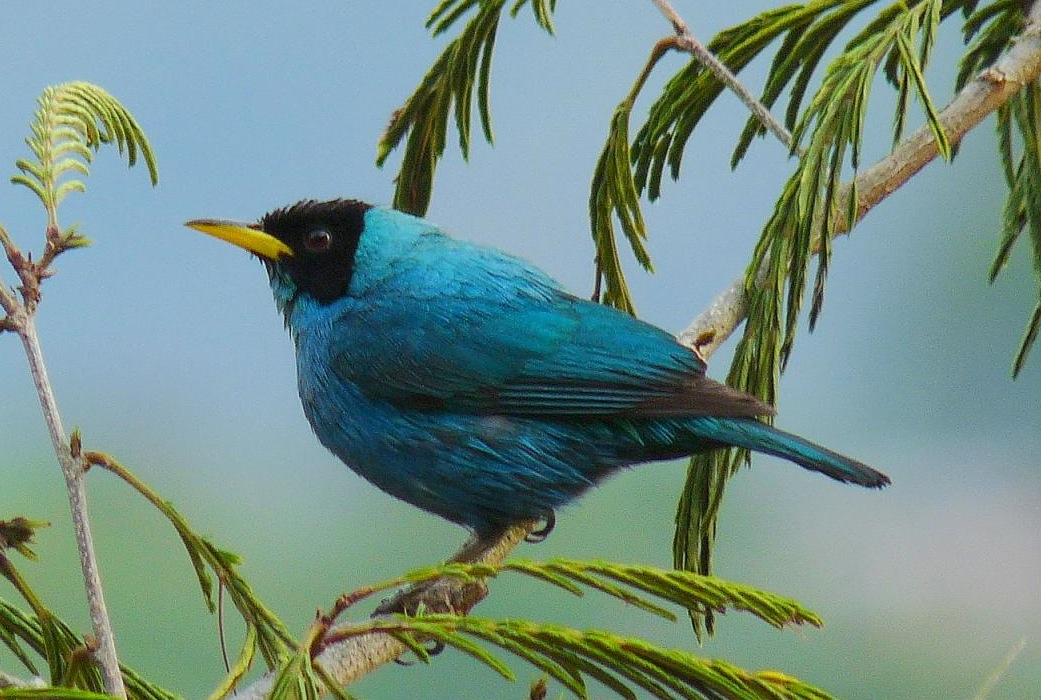 A male Green Honeycreeper in Manizales, Caldas, Colombia.